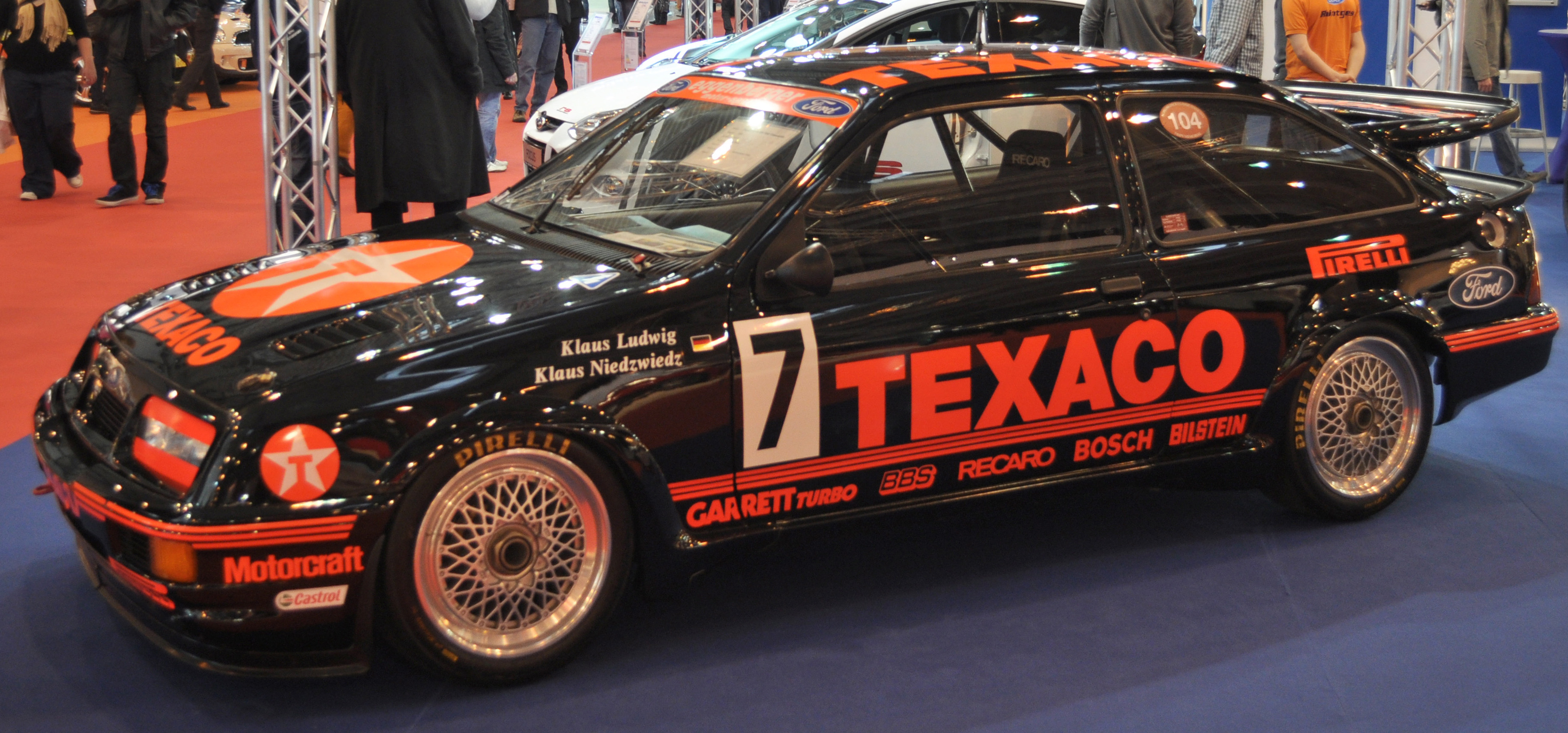 Ford Sierra RS 500 at the Essen Motor Show 2011